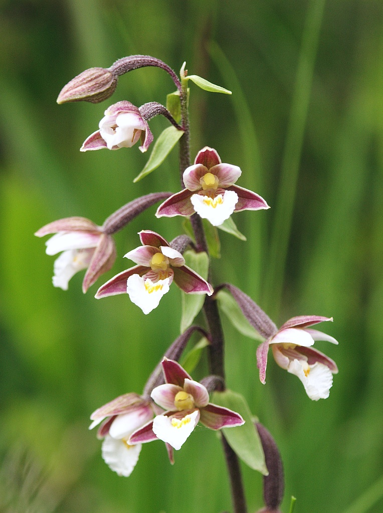 Epipactis palustris, Tannheimer Tal, Austria